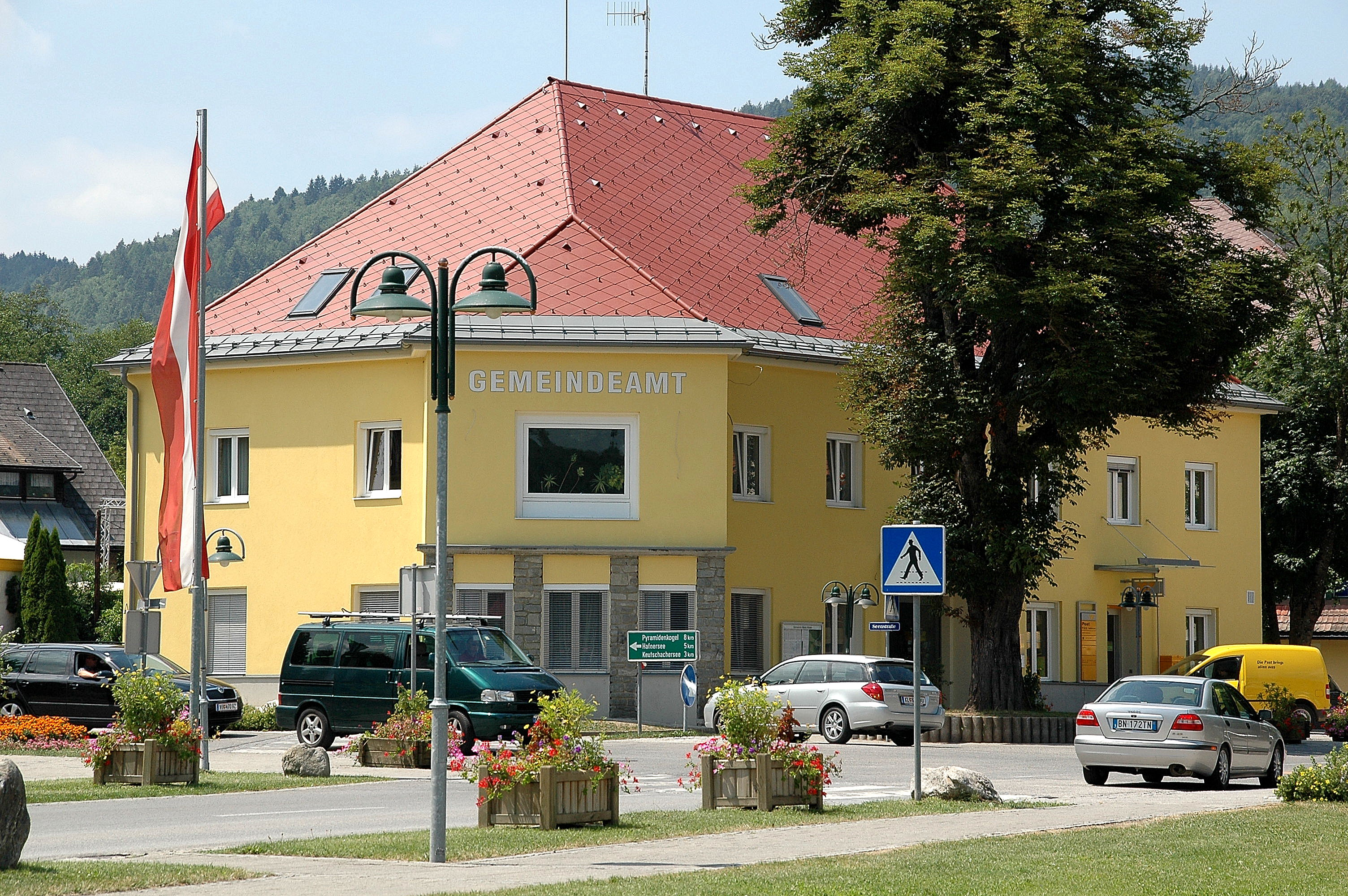 Town hall of Maria Wörth, situated in Reifnitz, district Klagenfurt-Land, Carinthia, Austria